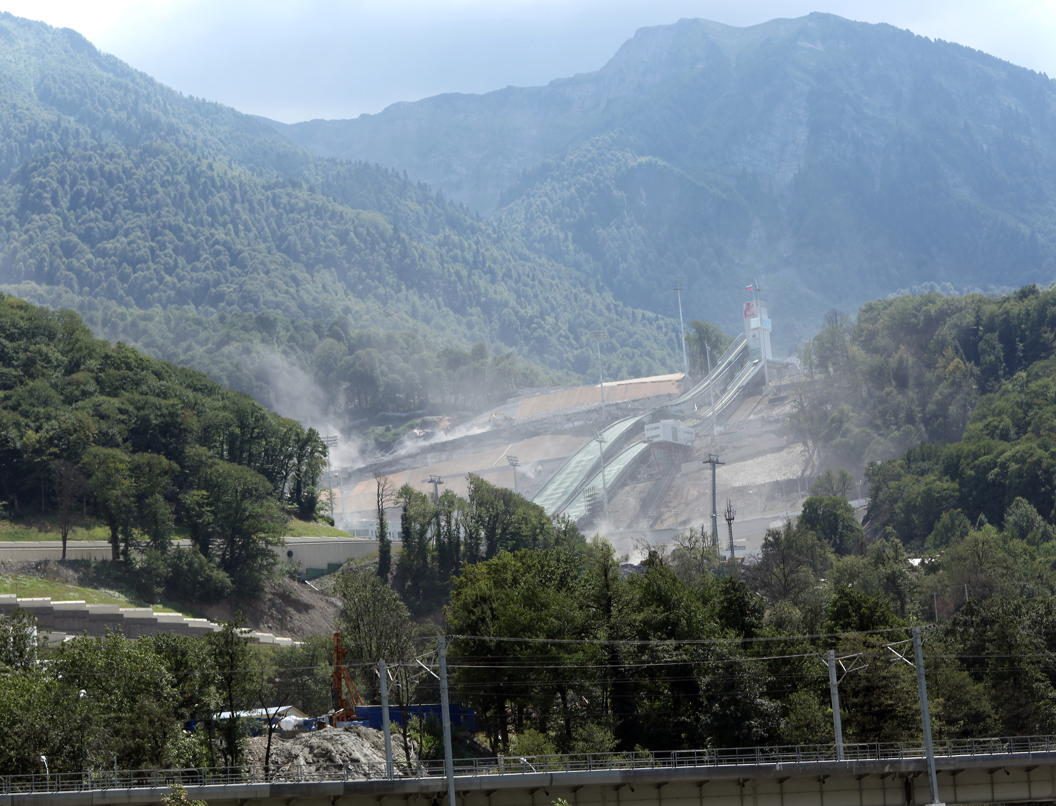 The unfinished Russki Gorki ski jump arena in Estosadok, Sochi, built for the Olympic Games 2014.